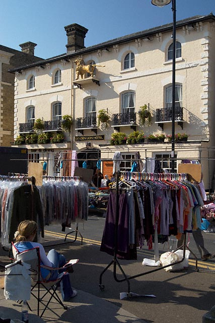 Market stalls in front of the Golden Lion Hotel, St Ives St Ives is a market town having a market every Monday. Bank holiday mondays are the biggest.